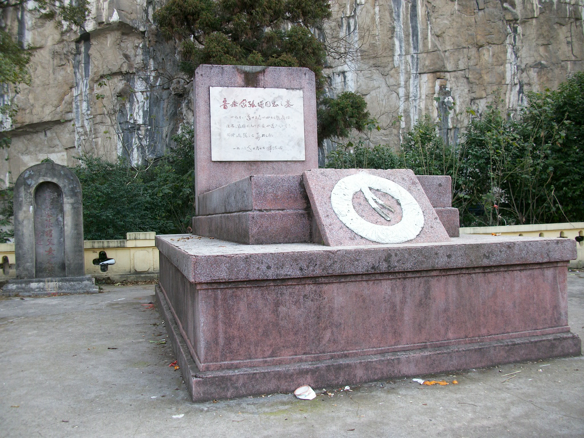 The tomb of Zhang Shu.